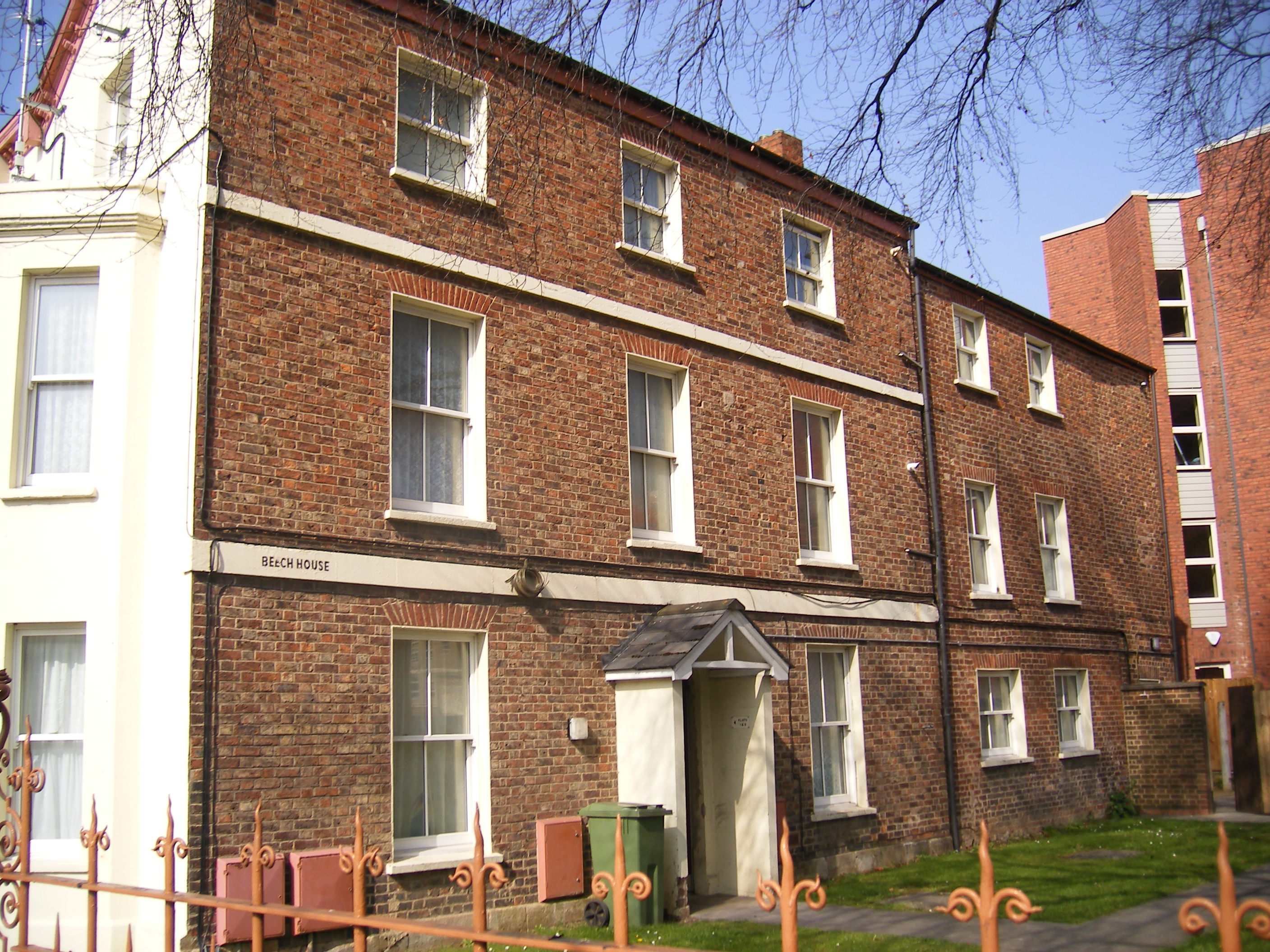 We went here on the way down to Somerset. It is a spa town in Gloucestershire. We went to the museum. a house in Cheltenham